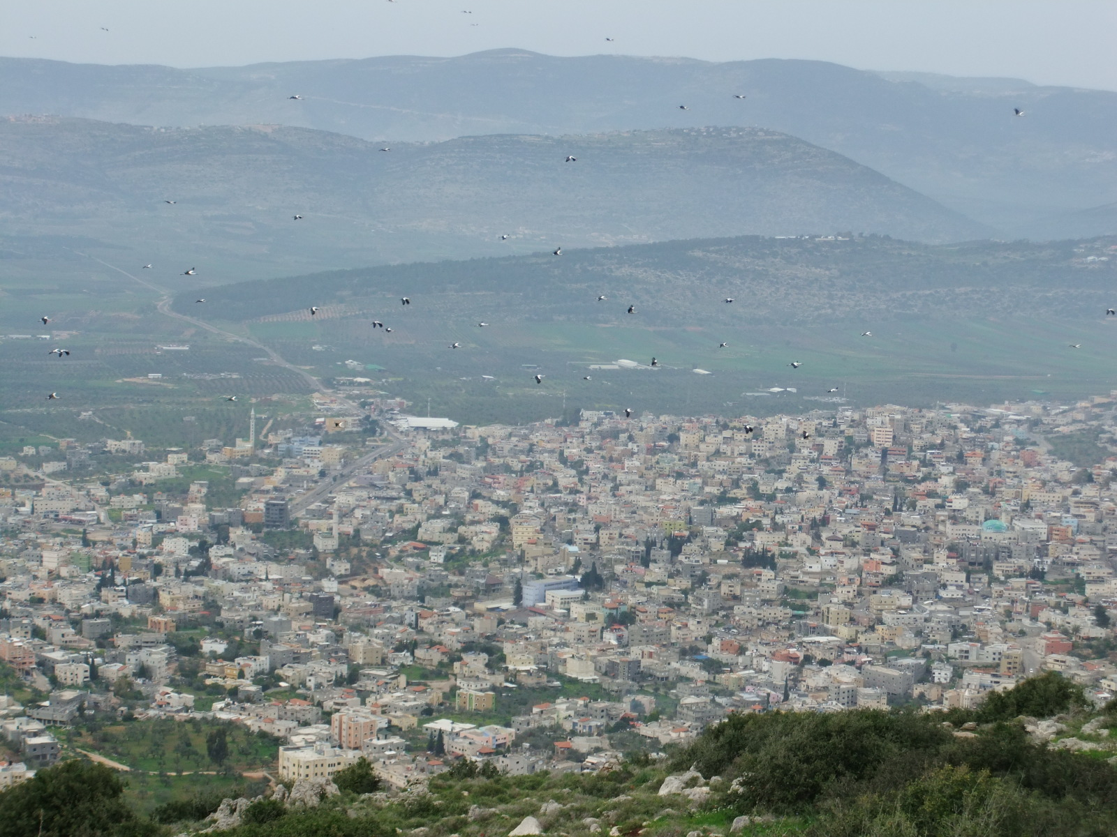 Arrabe from mount Achim